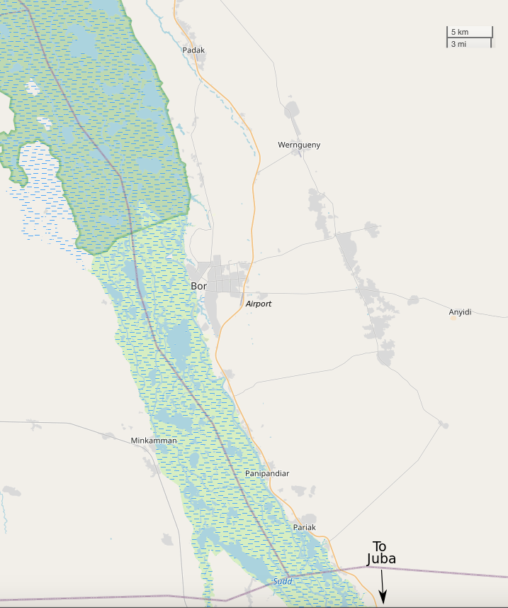 A map of Bor and the surrounding towns, with the word airport and the arrow to Juba added and the map scale moved This map may be incomplete, and may contain errors. Don't rely solely on it for navigation.